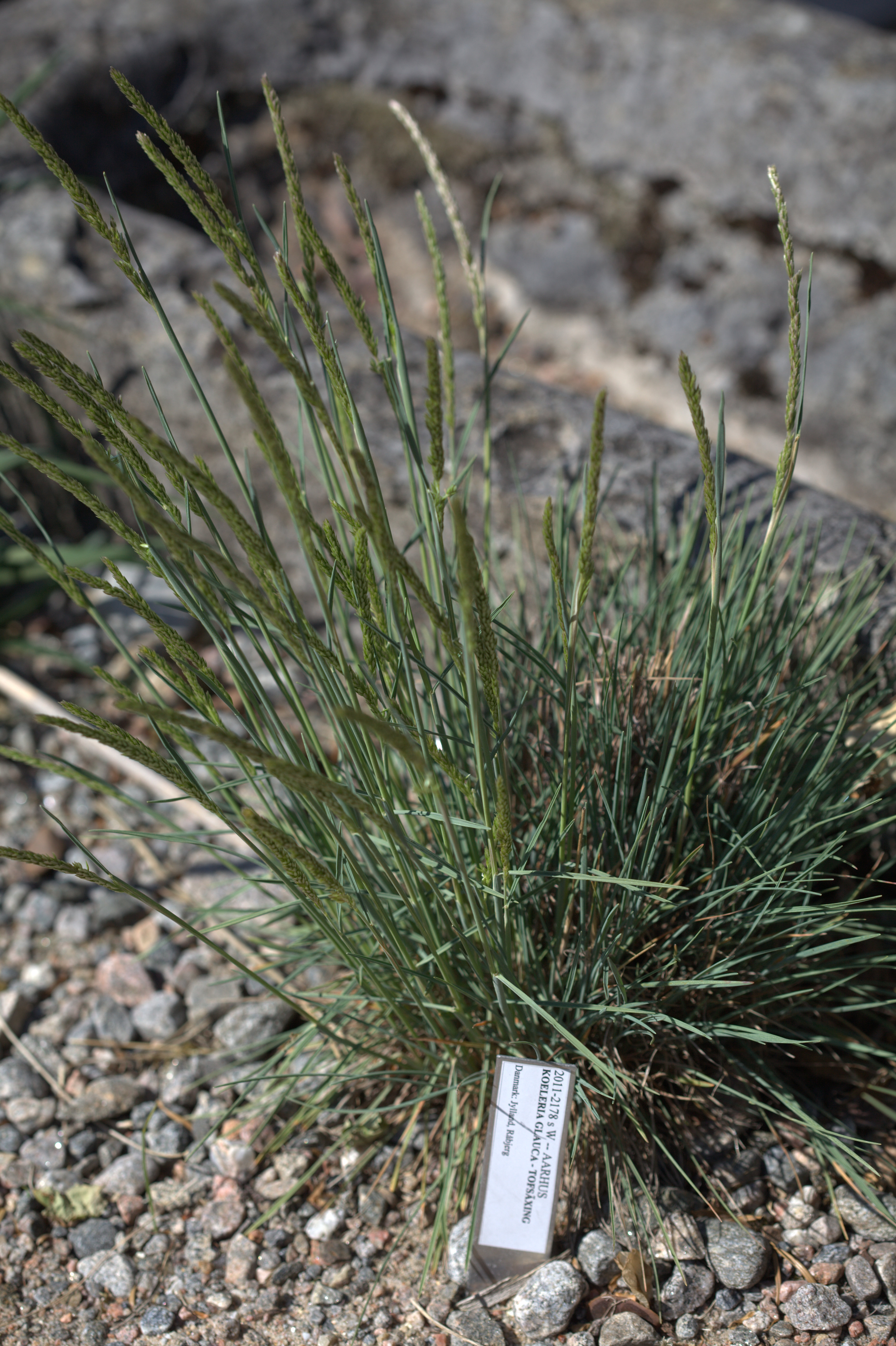 Photo taken at Gothenburg botanical garden. Specimen id: 2011-2178 s W Seed collected in 2011 from the wild (Aarhus)